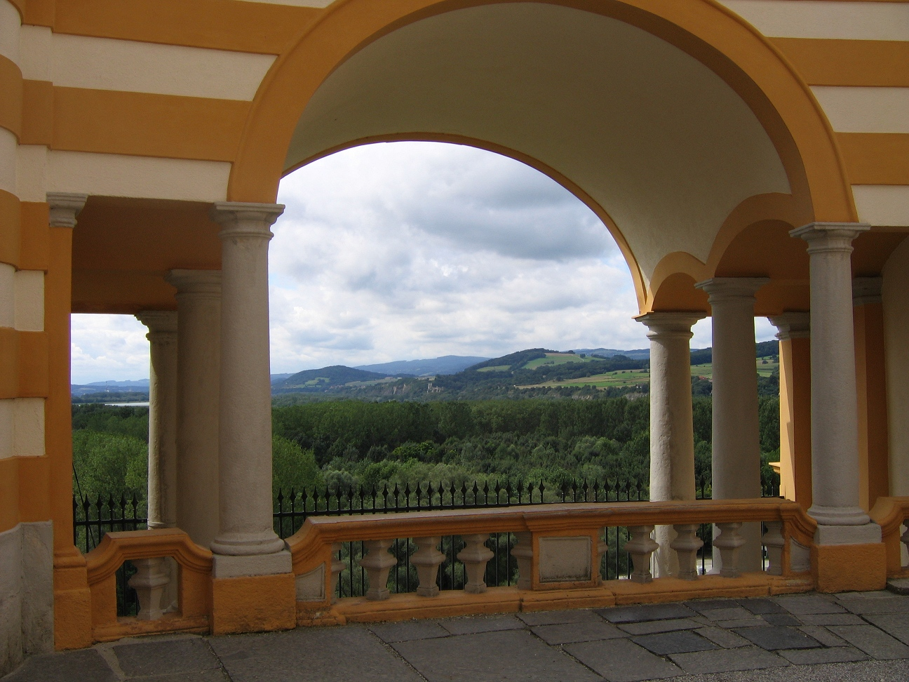 Stift Melk, Austria, view to northwest from the Altane (balcony)